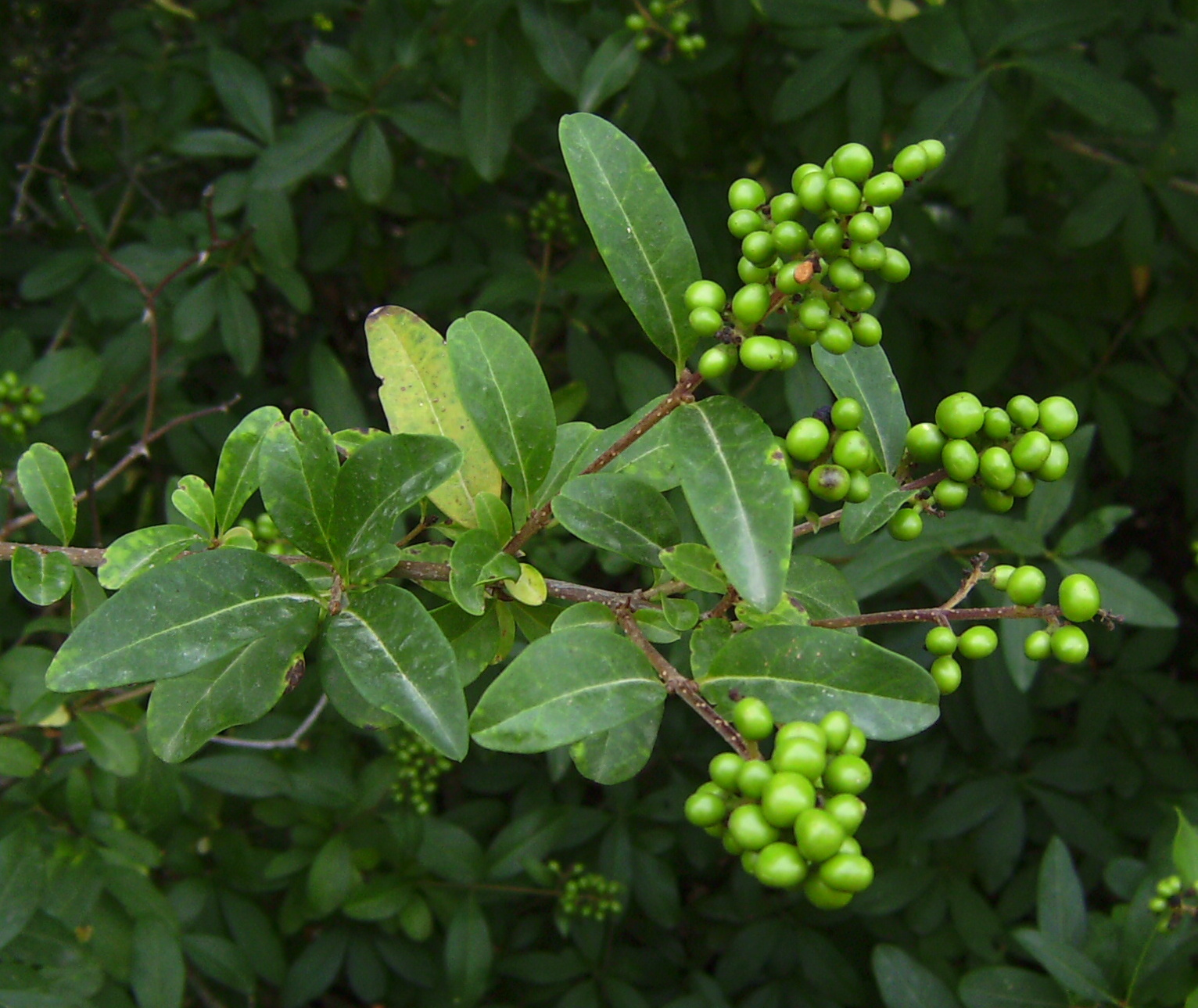 Ligustrum vulgare (Wild privet), leaves and unripen fruits, in the wild, Castelltallat, Catalonia